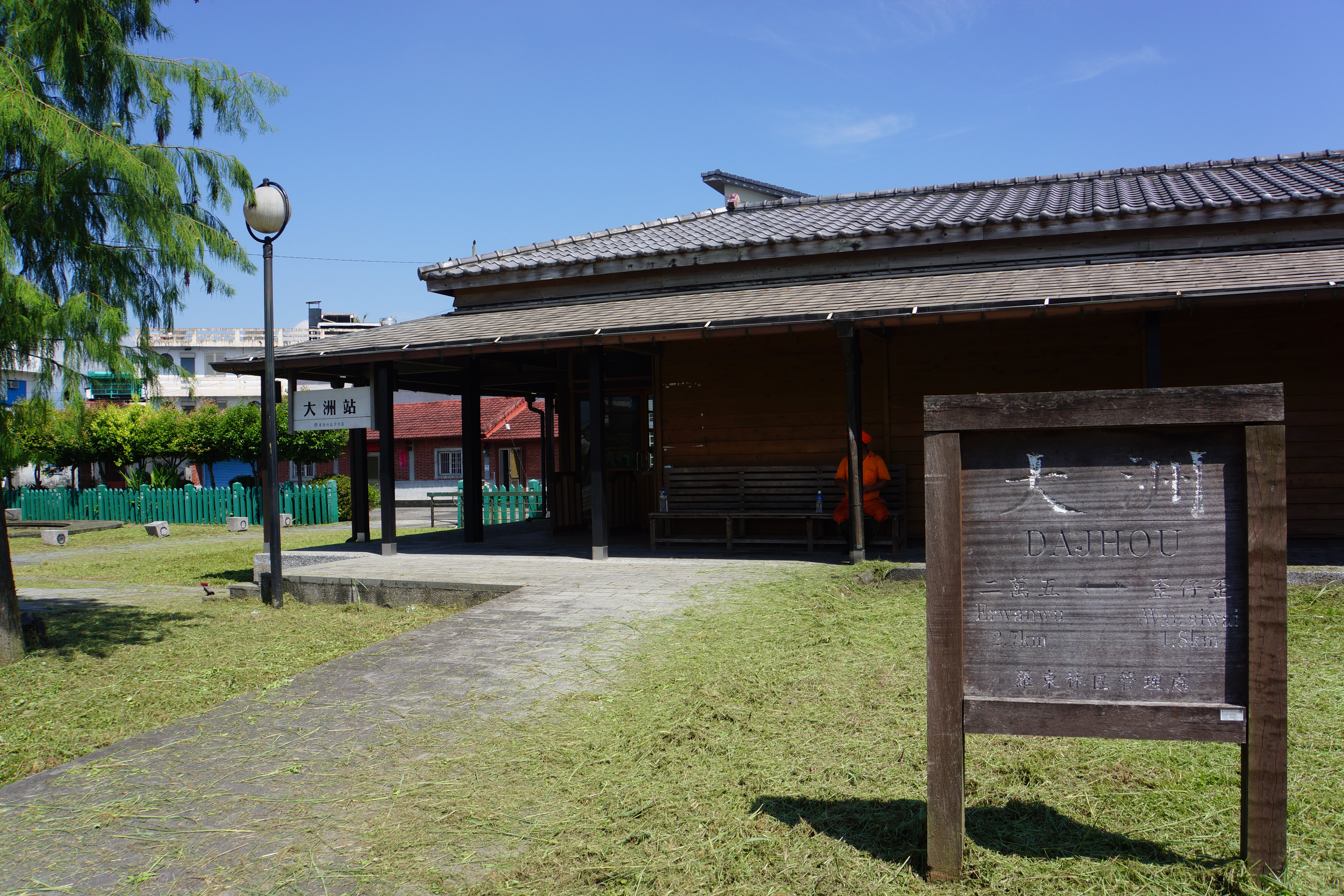 Dazhou Station 大洲車站